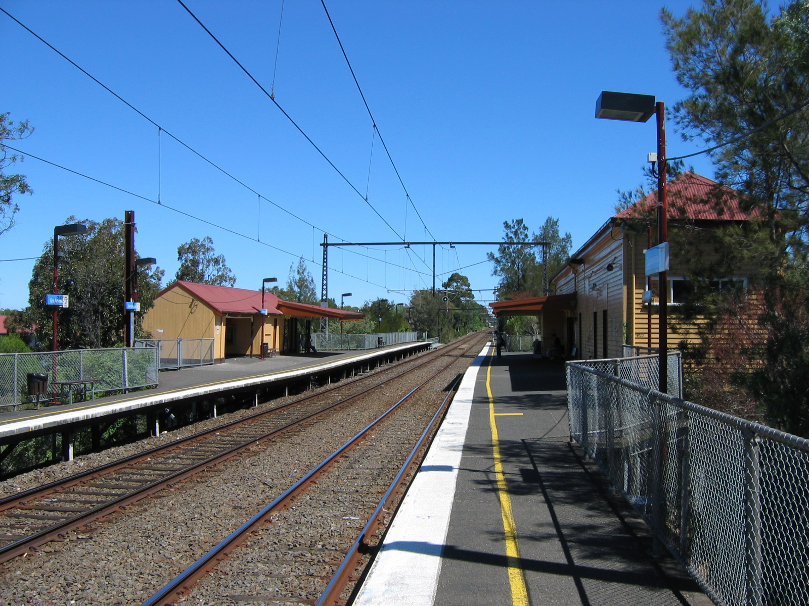 Gardenvale station (Sandringham line), Melbourne, Victoria.